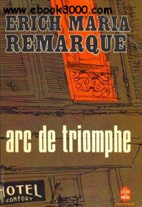 Book cover of Erich Maria Remarque, "Arc de triomphe" 1946